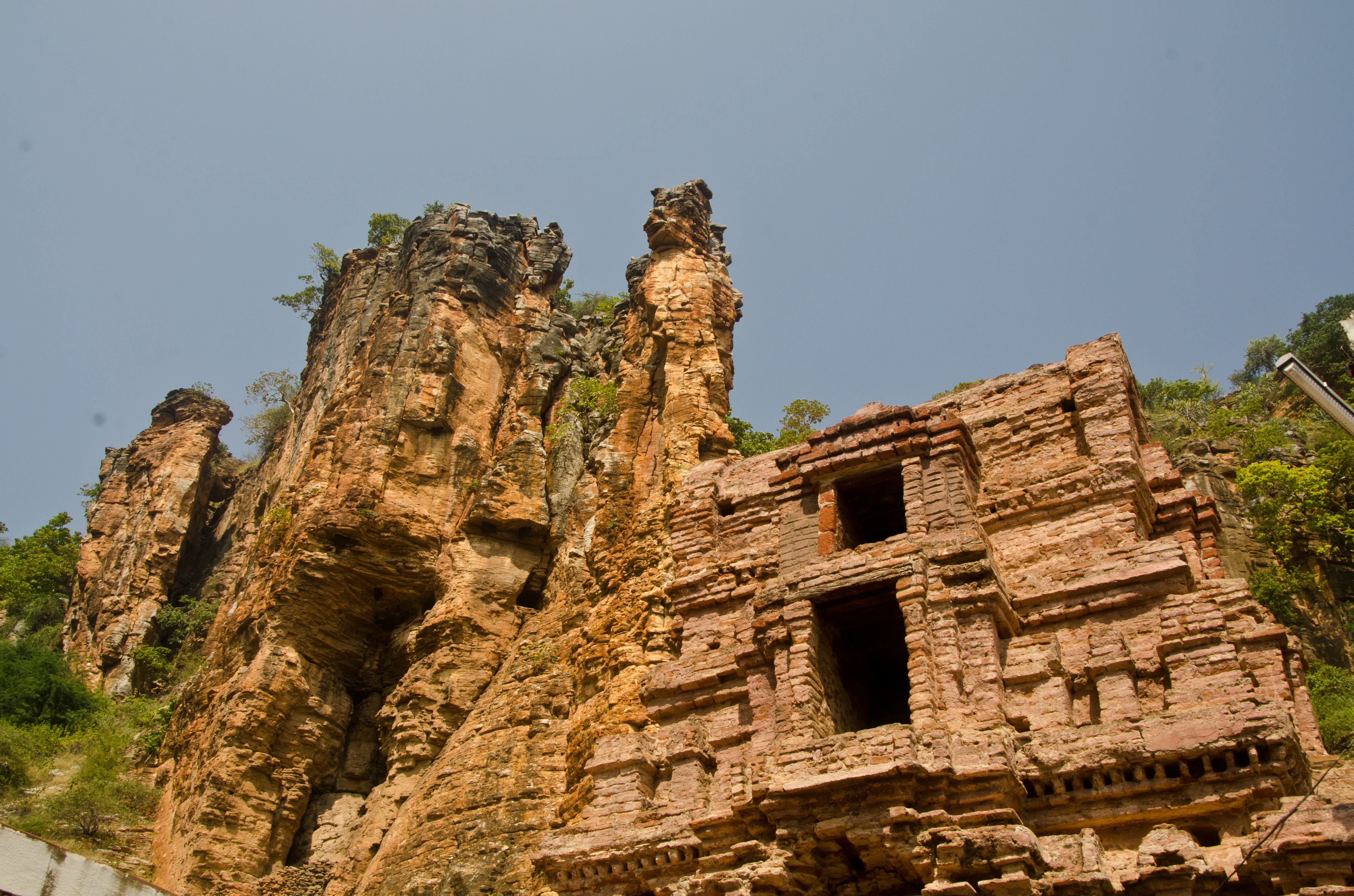 View of Rock formations and Yaganti cave Temple Gopuram